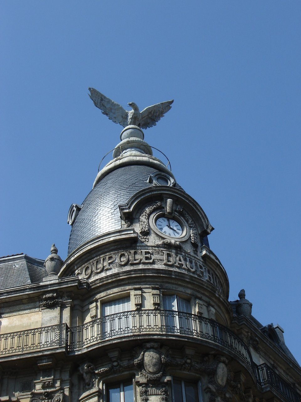 Dome surmounted of a sculpture of eagle on the building of the Dauphiné Libéré, Grenoble, France